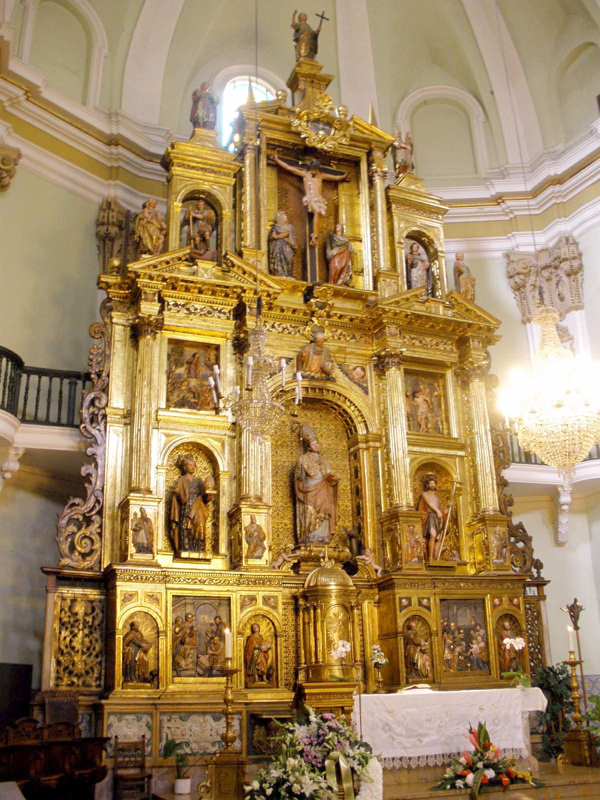 Retablo mayor, barroco, de la iglesia de San Gil Abad de Zaragoza